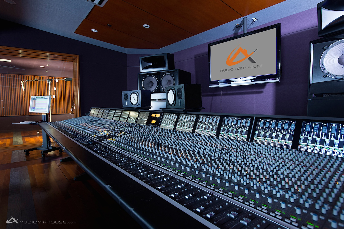 Studio A, our large-tracking room at Audio Mix House, Las Vegas, NV